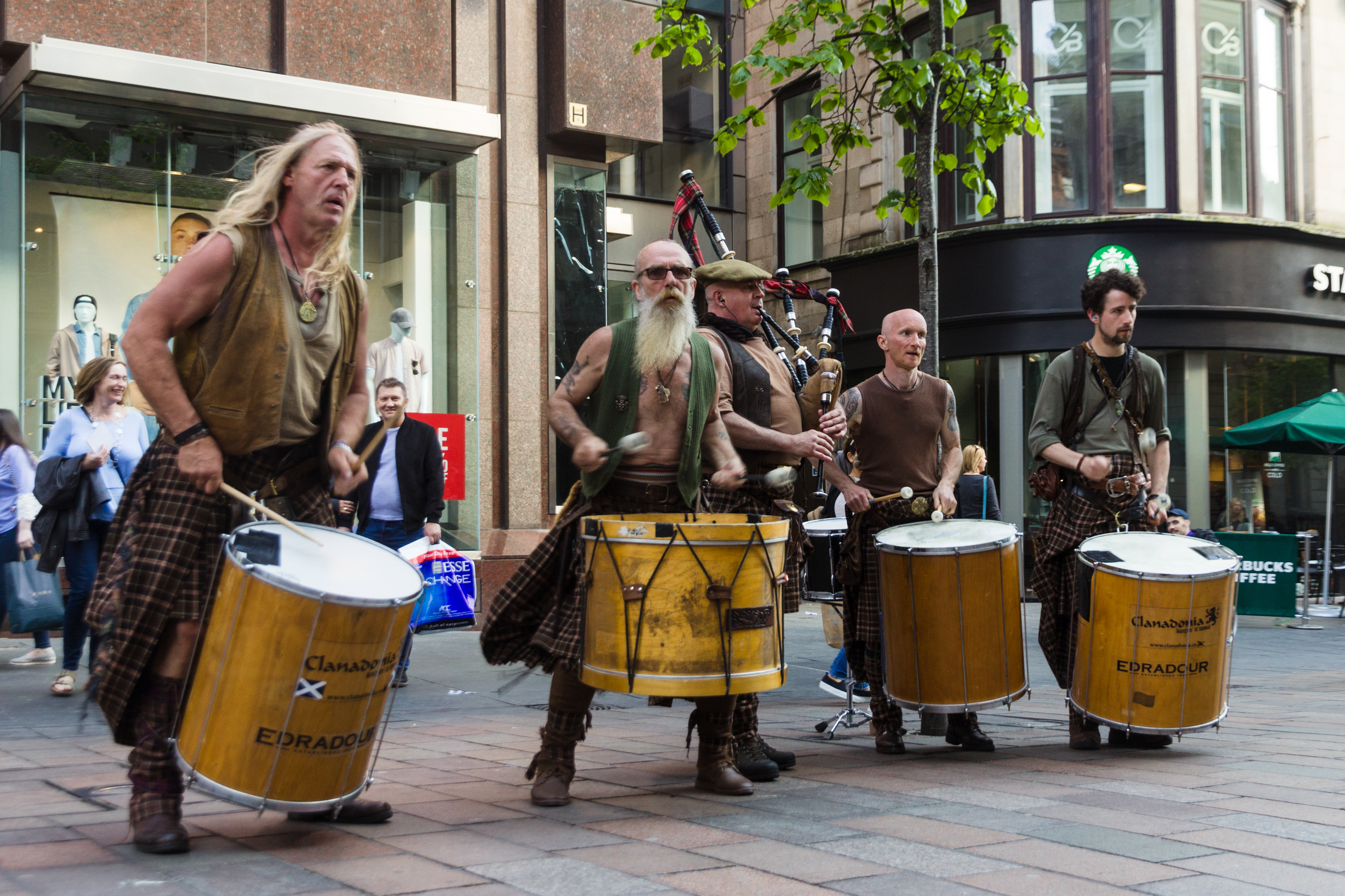 Clanadonia performs at Buchanan Street, Glasgow